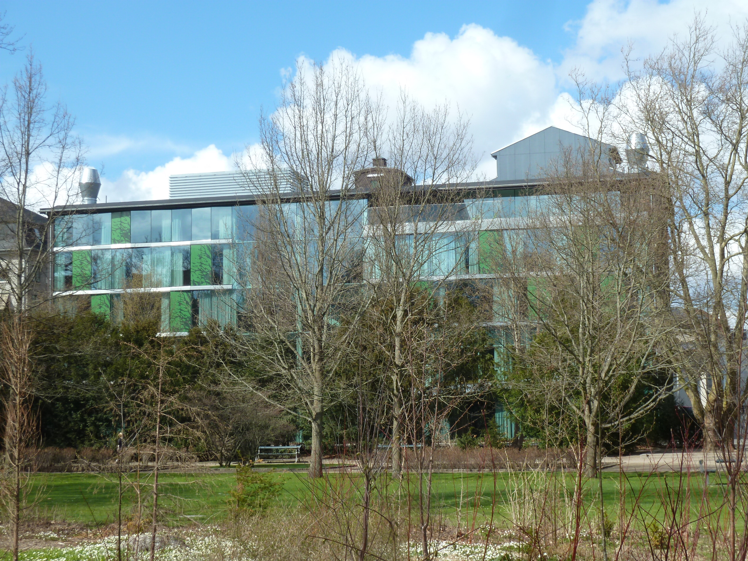 A former raw material storage Building converted to premises for Copenhagen Business School in the Porcelænshaven Development in Frederiksberg, Copenhagen, Denmark